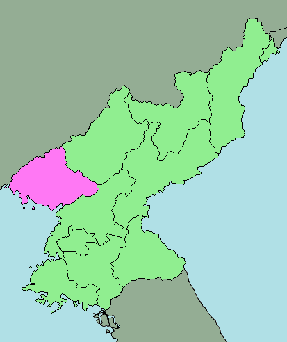 area map of Pyonganbuk Province